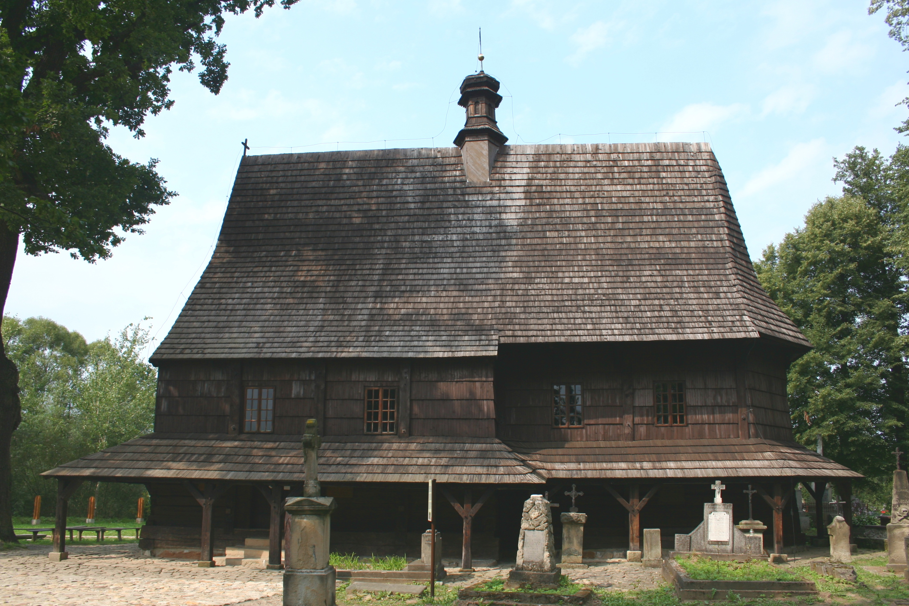 Saint Leonard's church in Lipnica Murowana, Poland